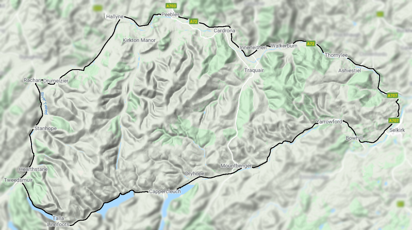 An outline of the Manor Hills region.